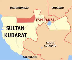 Map of the Sultan Kudarat showing the location of Esperanza